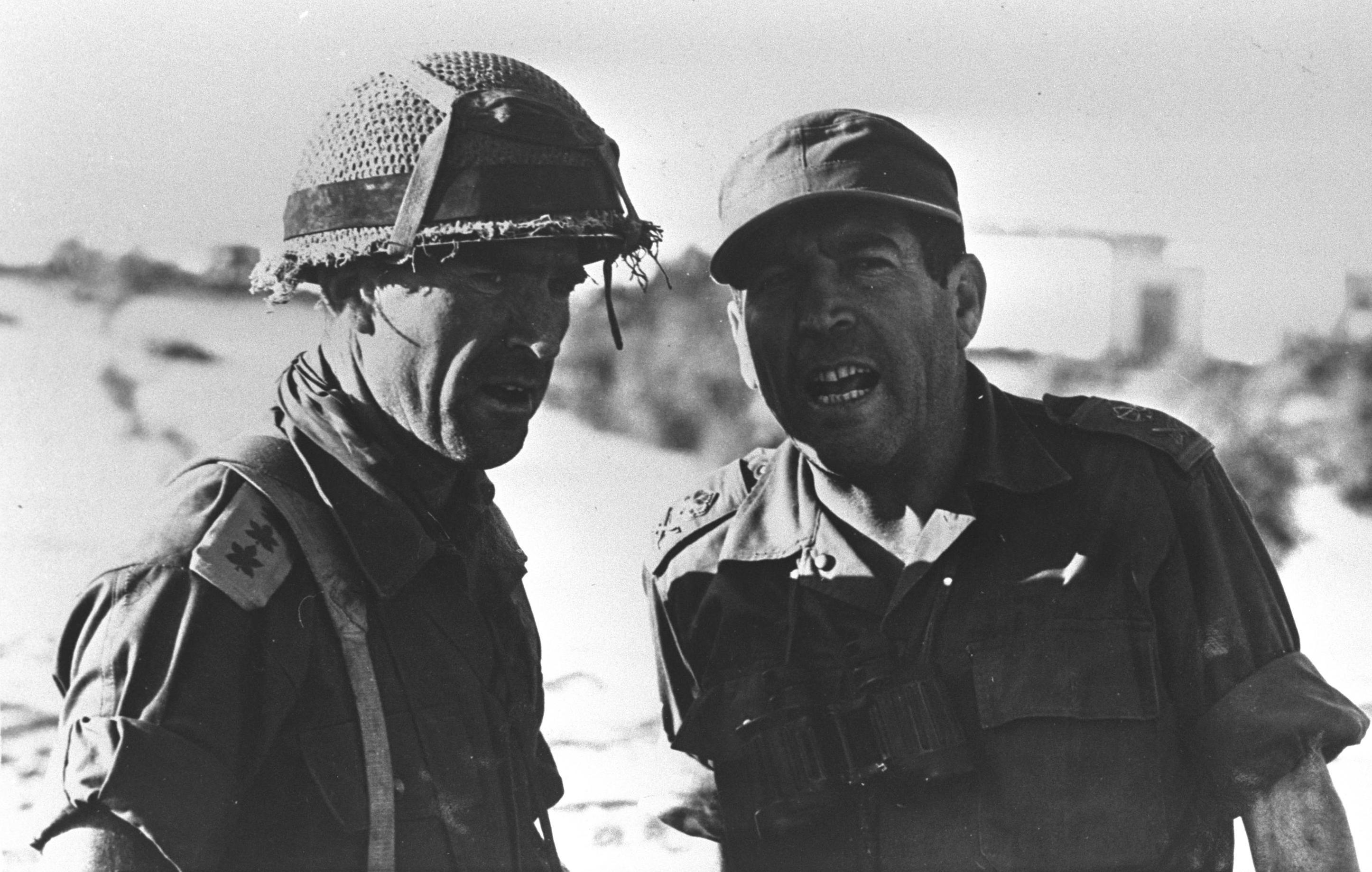 ALUF ISRAEL TAL AND ALUF MISHNE REPHAEL EITAN (L) IN HAIFA DURING THE SIX DAY WAR.